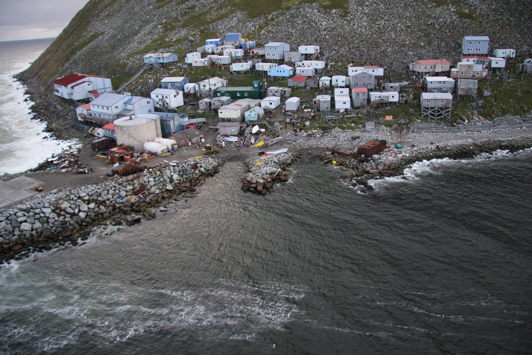 The native village of Little Diomede sits on the border of Russia and the United States.